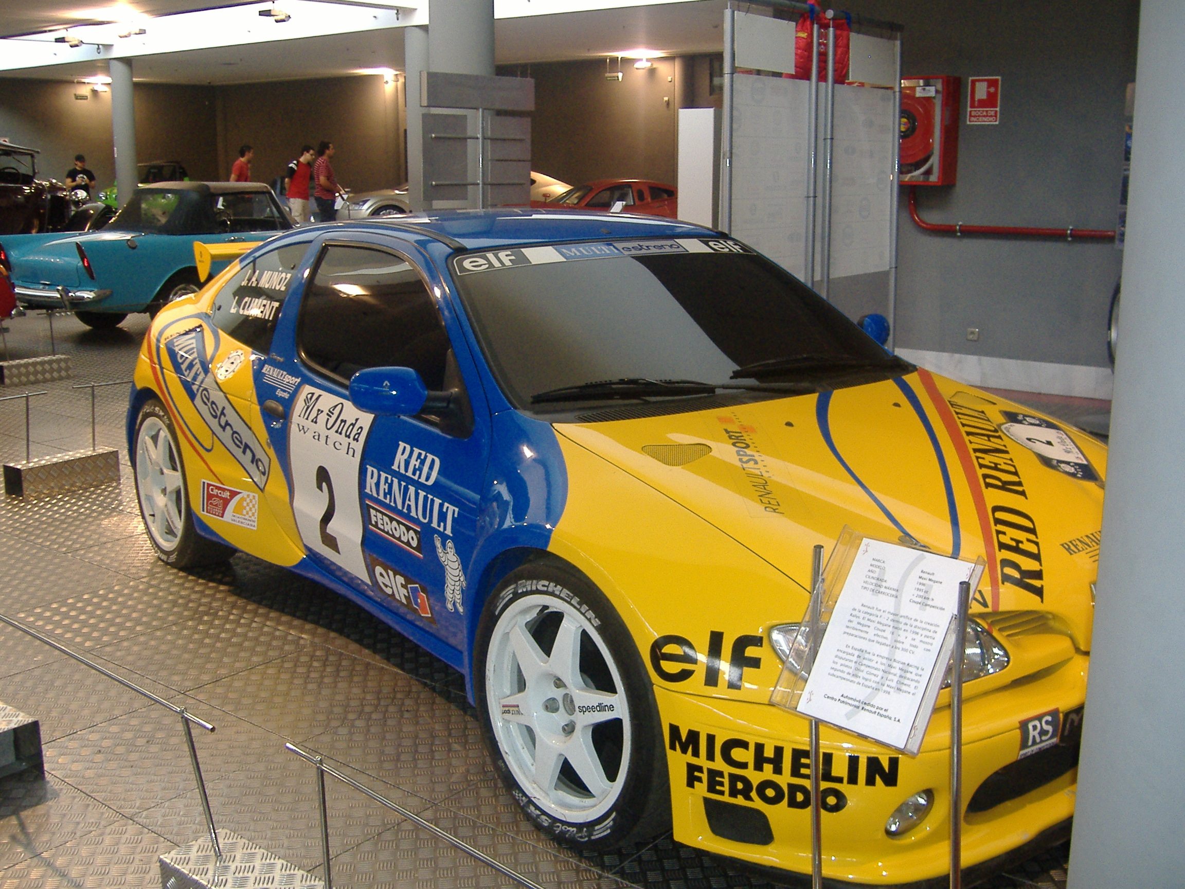 Renault Maxi Megane of Luis Climent, spanish rallye driver.